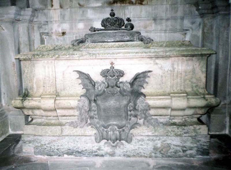 Grave of King Frederick of Sweden (1676-1751) on the ground floor of the Caroline Chapel at Riddarholm ChurchPlace: Stockholm, Sweden